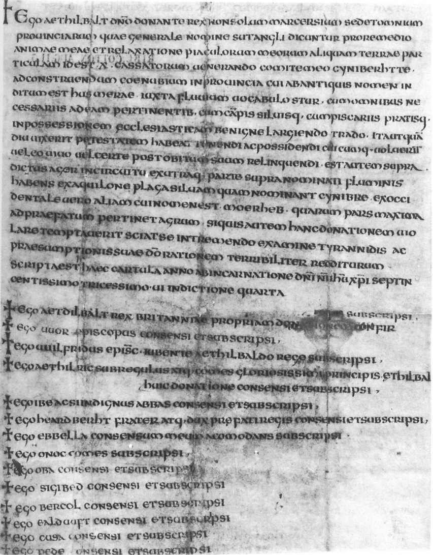 A charter of Aethelbald's to Cyneberht, 736. The first charter of undoubted authenticity to include an incarnation year (description in ). British Library MS Cotton Augustus ii.